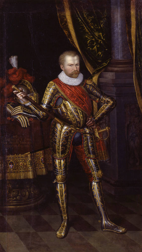 Portrait of Christian I, Elector of Saxony (1560-1591)